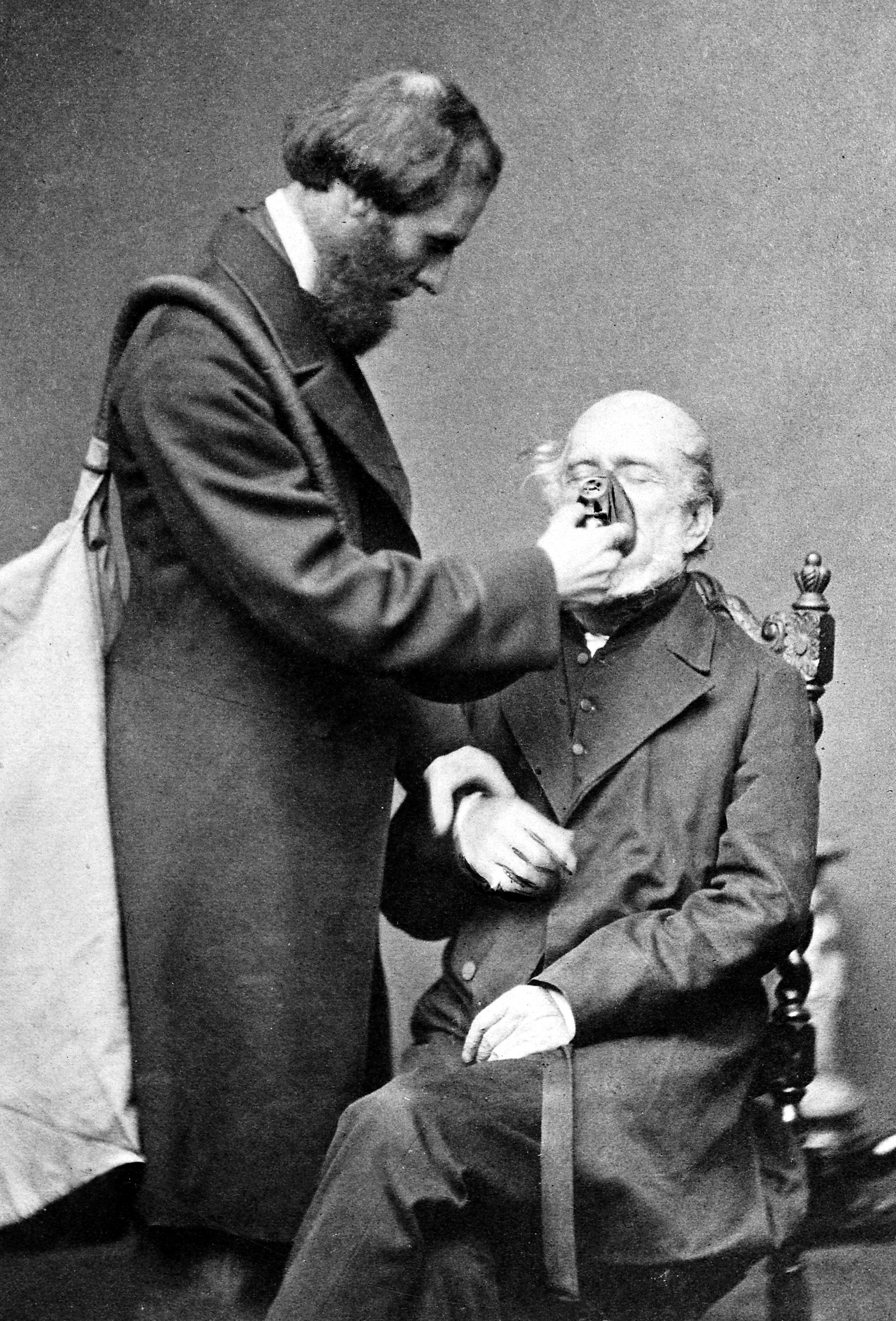 Joseph Thomas Clover demonstrating his chloroform apparatus. The Clover family believes this posed photograph shows Clover as if administering chloroform to his father John Wright Clover. This photograph was taken in 1862.